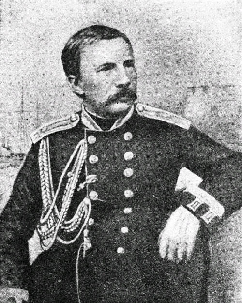 The russian Admiral Grigori Iwanowitsch Butakow